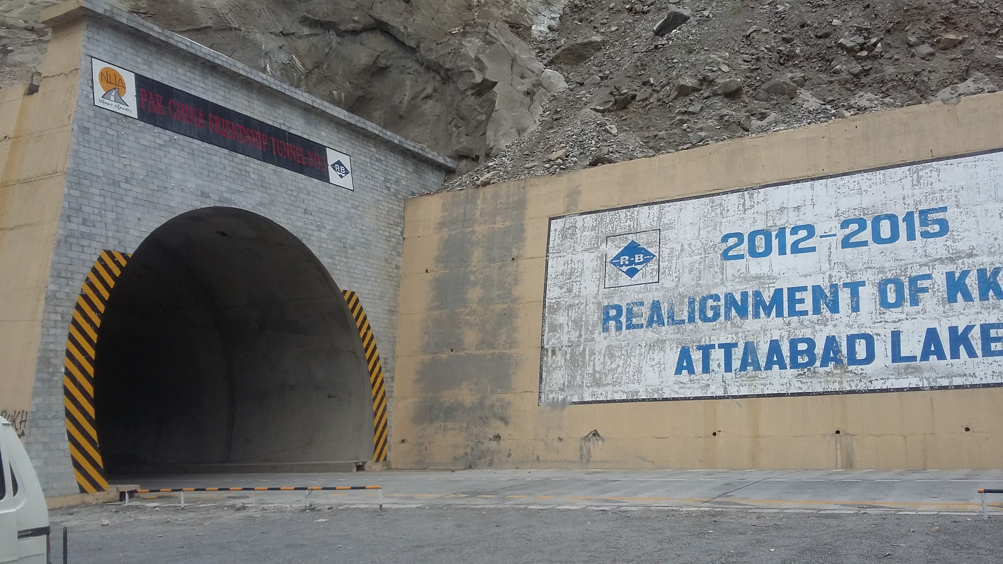 Tunnel at Attabad lake